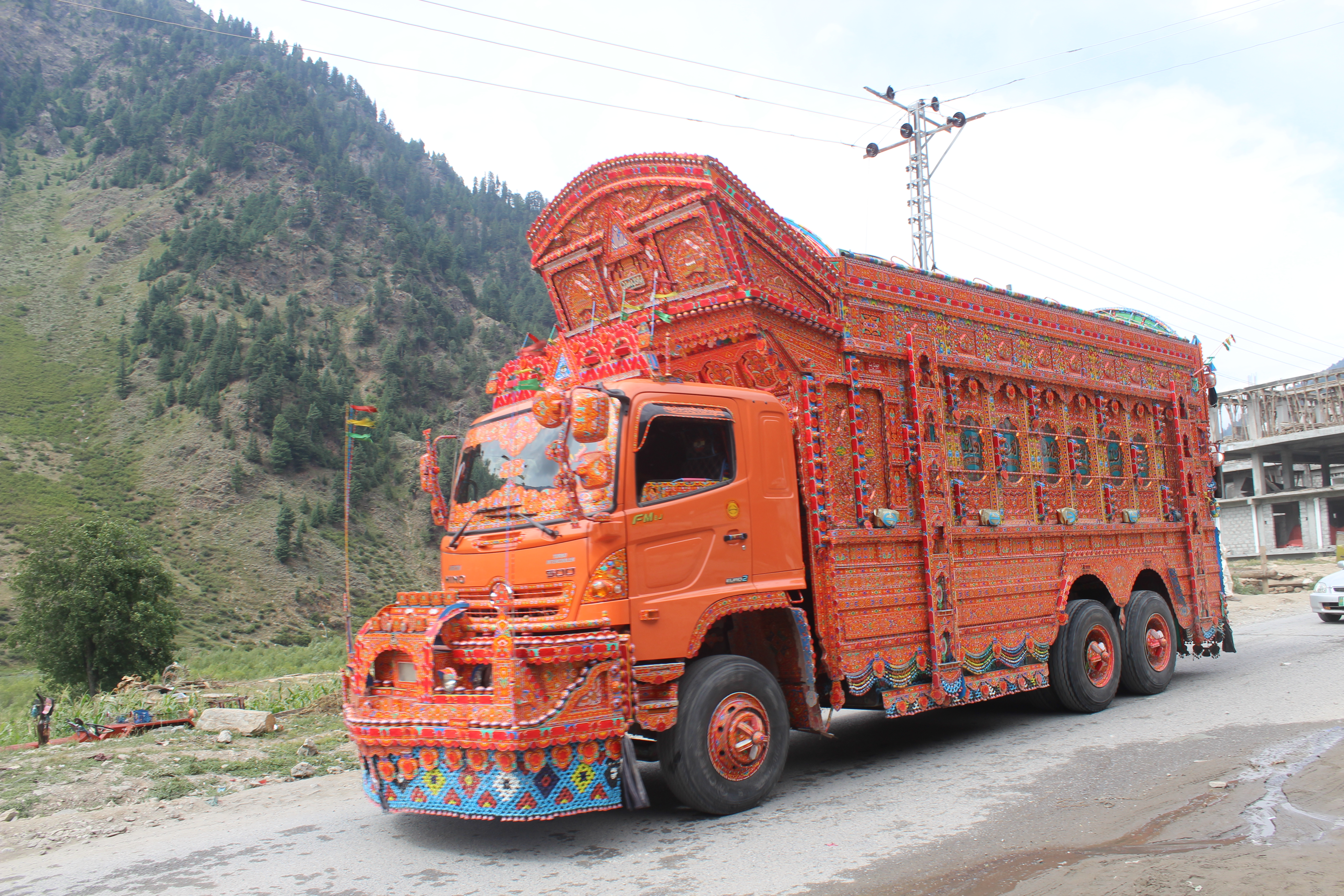 A pakistani Truck